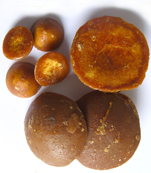 Brown sugar from Indonesia